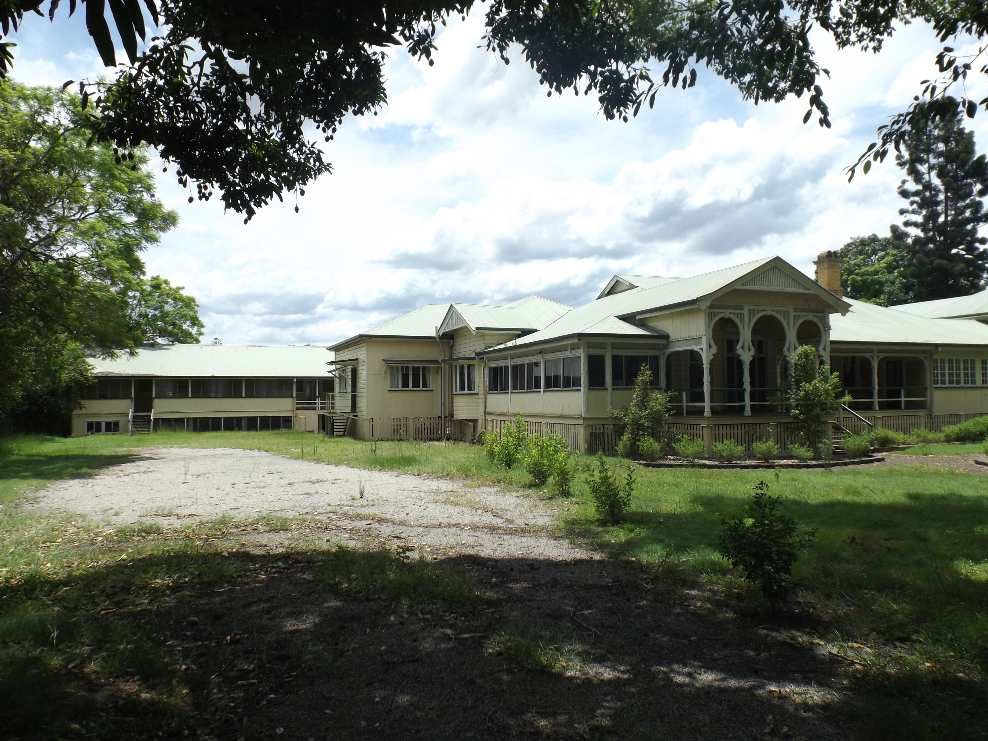 Photo of Chelmer Police College at Chelmer, Brisbane, Queensland, Australia.